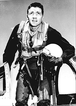 Col John Boyd as a Captain or Major flying as a wingman, likely following a flight during the Korean War.